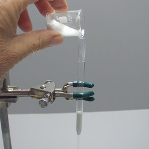 Tretsira